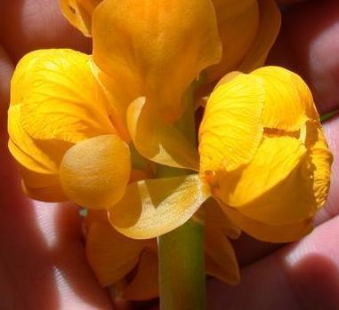 Candle Bush (Senna alata)